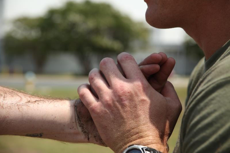 Staff Sgt. Timothy Hopkins, a Marine Corps Martial Arts Program black belt, teaches Lance Cpl. Joseph Sanchez, a reproduction specialist with 2nd MAW Combat Camera, a proper wrist lock during the the green belt MCMAP test. The final test includes a list of moves and techniques the Marines have to execute while being watched by the instructor.